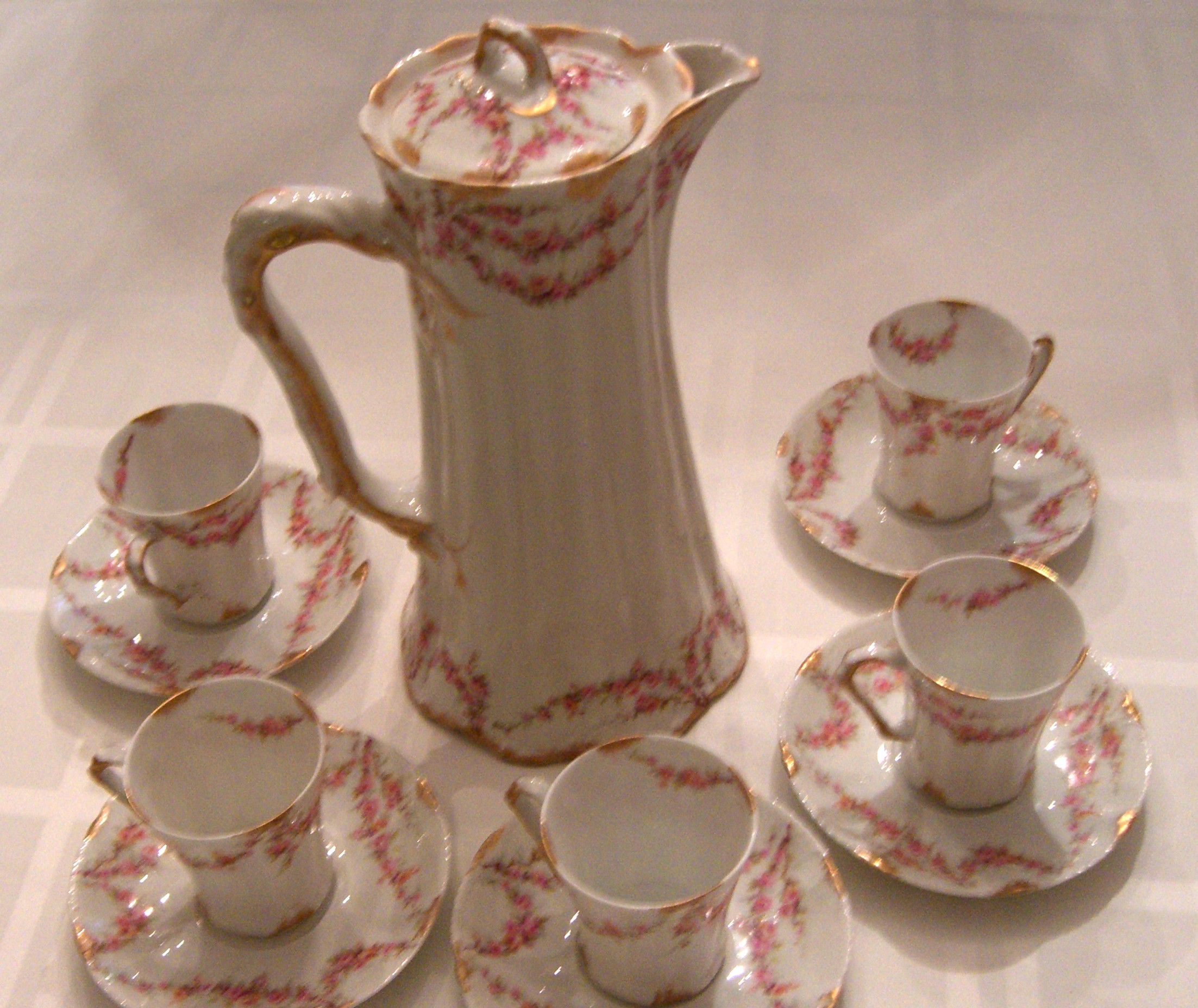 Porcelain hot chocolate set made by Théodore Haviland, Limoges. The pattern is Schleiger #145, sometimes known as French Varenne, made circa 1895-1905.